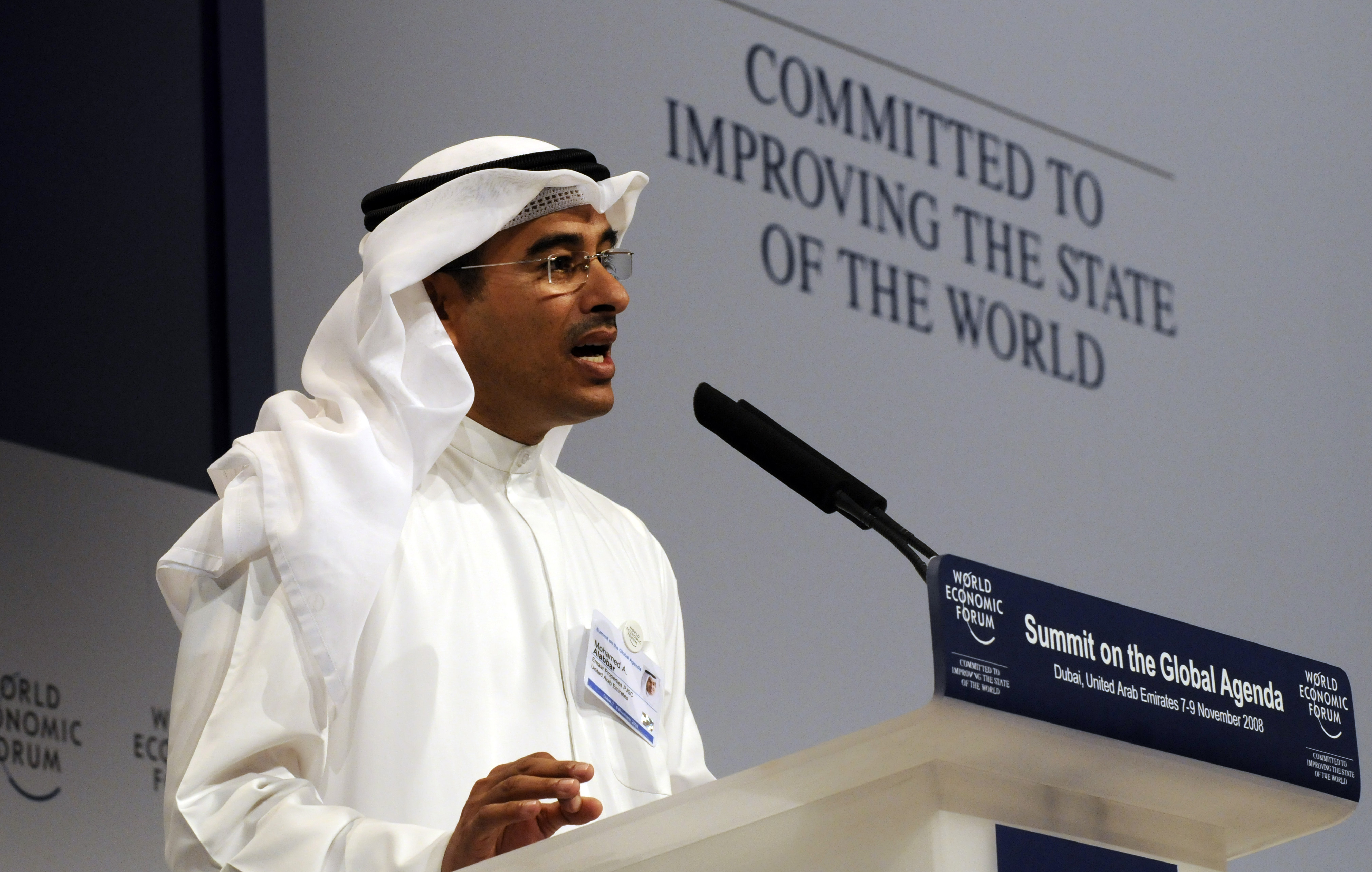 DUBAI/UAE, 07NOV08 - Mohamed Alabbar, Chairman, Emaar Properties and co-chair of the Summit on the Global Agenda, speaks at the Introductory Session of the Summit on the Global Agenda, 07 November - 09 November 2008. Copyright World Economic Forum /Photo by Dana Smillie